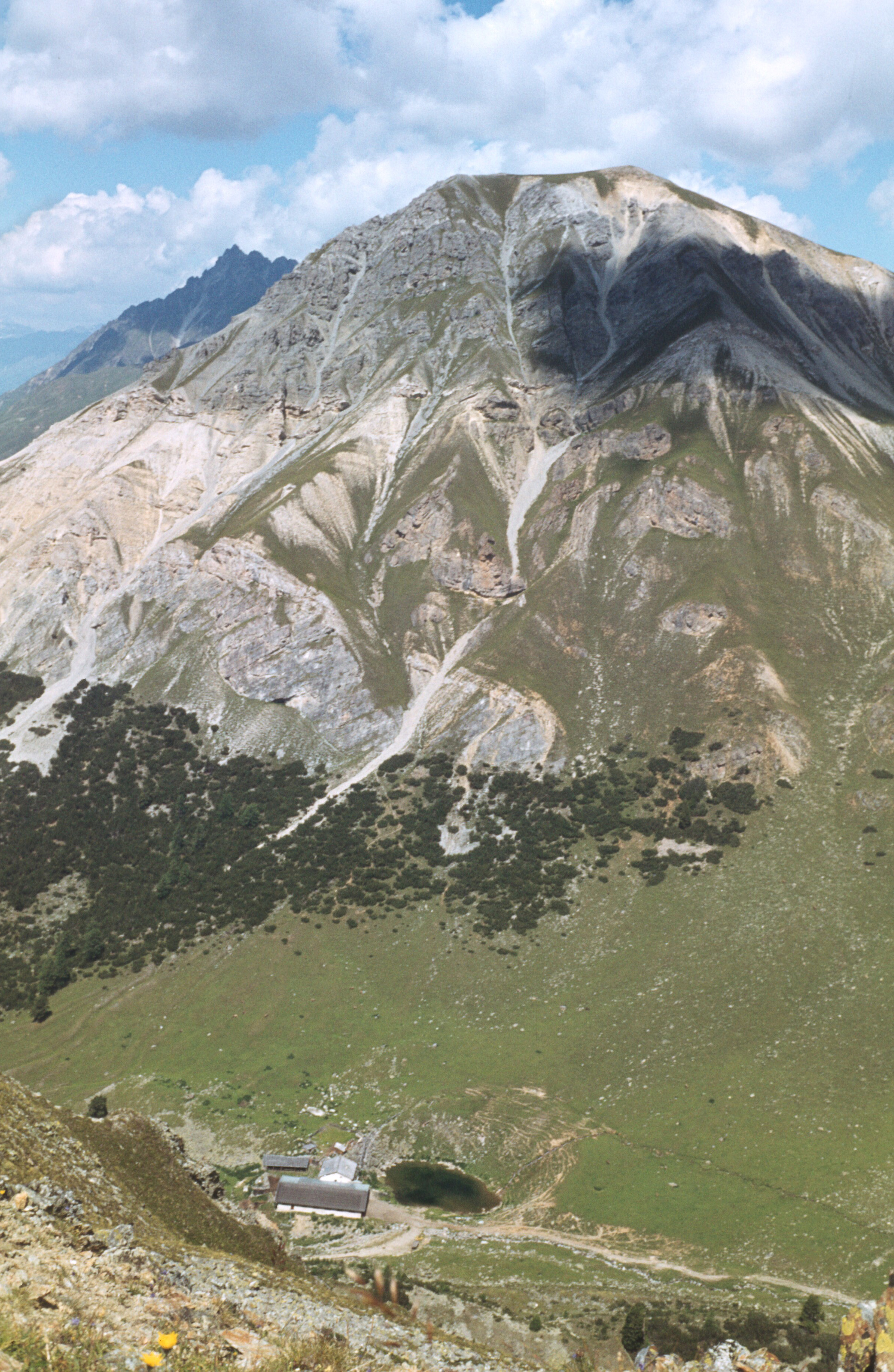 Endkopf (Cima Termine) from South, from Pleißköpfl. Left in the background Klopairspitze, in the front Grauner Alm (South Tyrol)